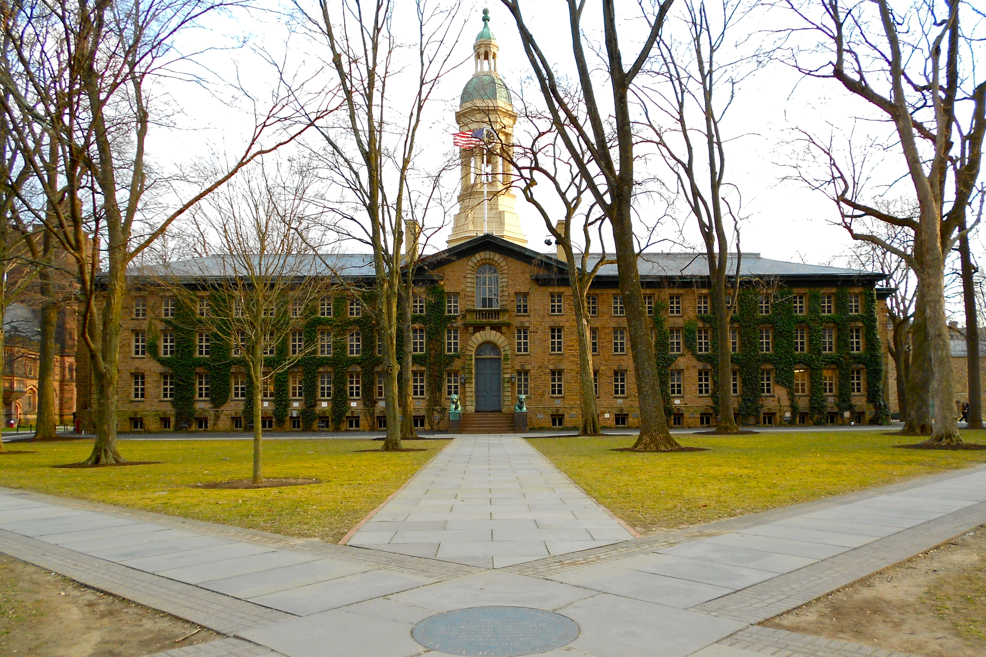 Nassau Hall, the original building and current administration building of Princeton University. On the NRHP.